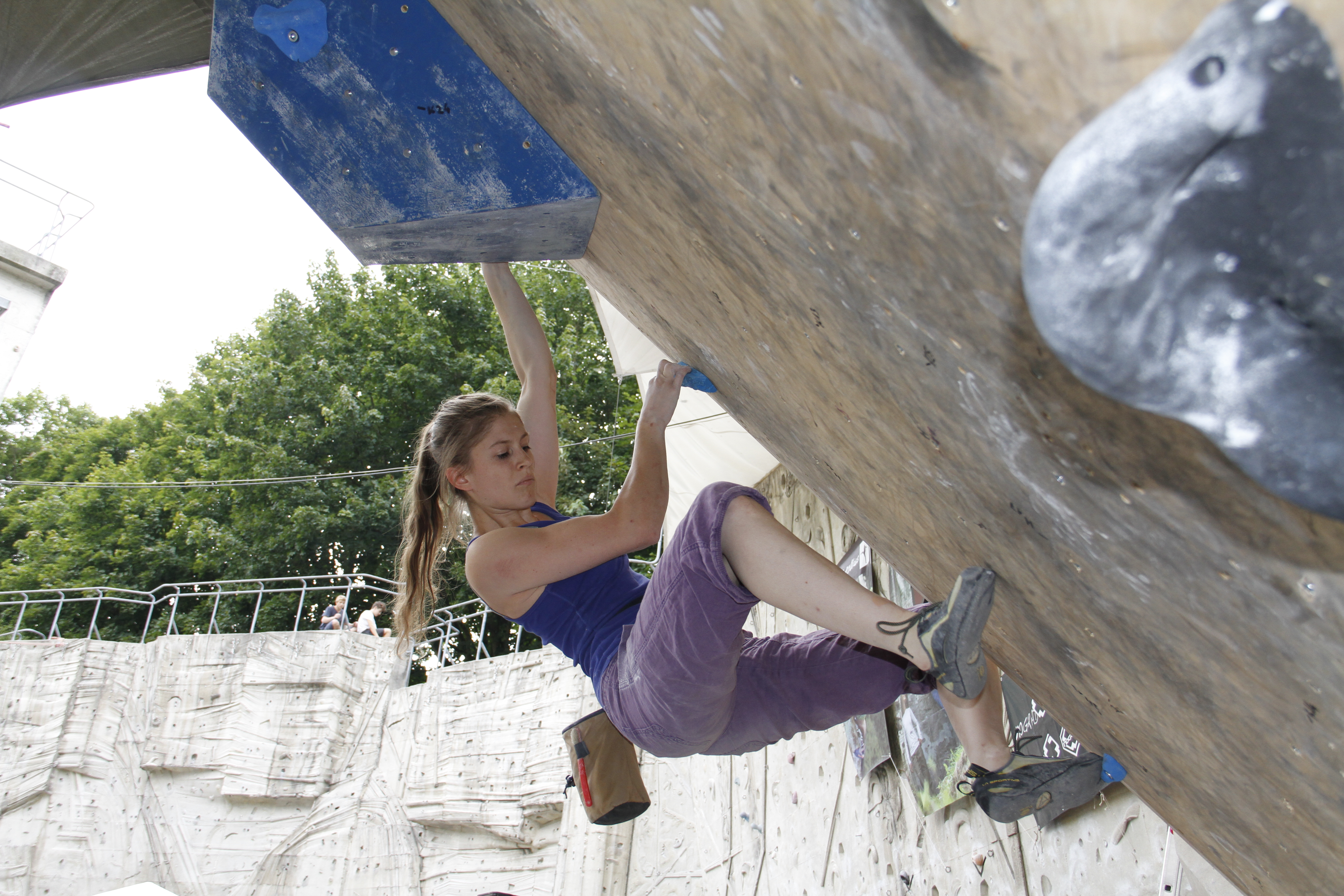 Boulder Contest Munich, Germany 2012, women's finals